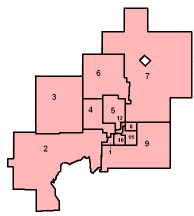 Map of Greater Sudbury, Ontario's wards used since 2006.